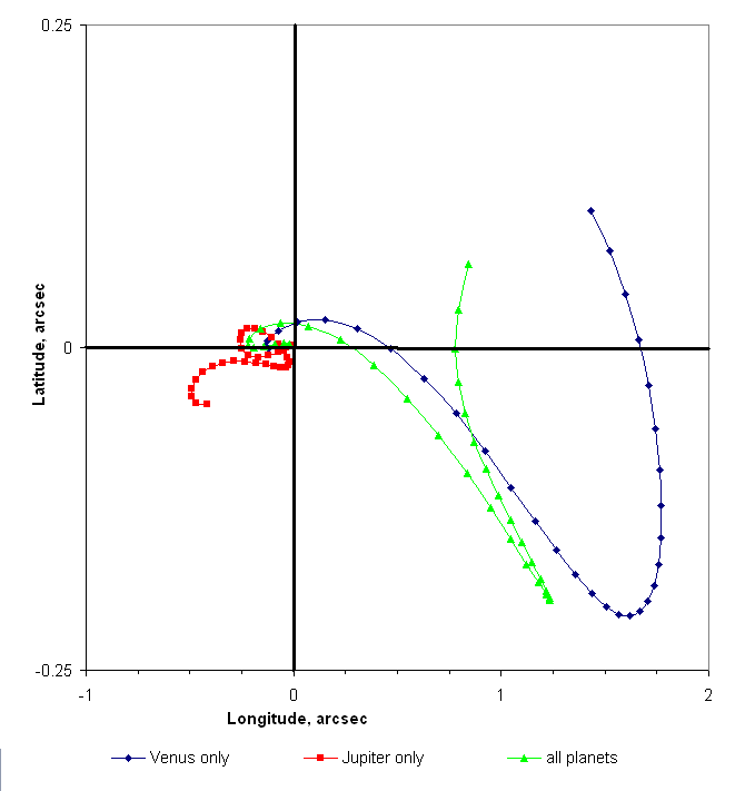 Plot of Mercury's orbital position, with and without perturbations from various other planets; created in MS Excel from author's data.